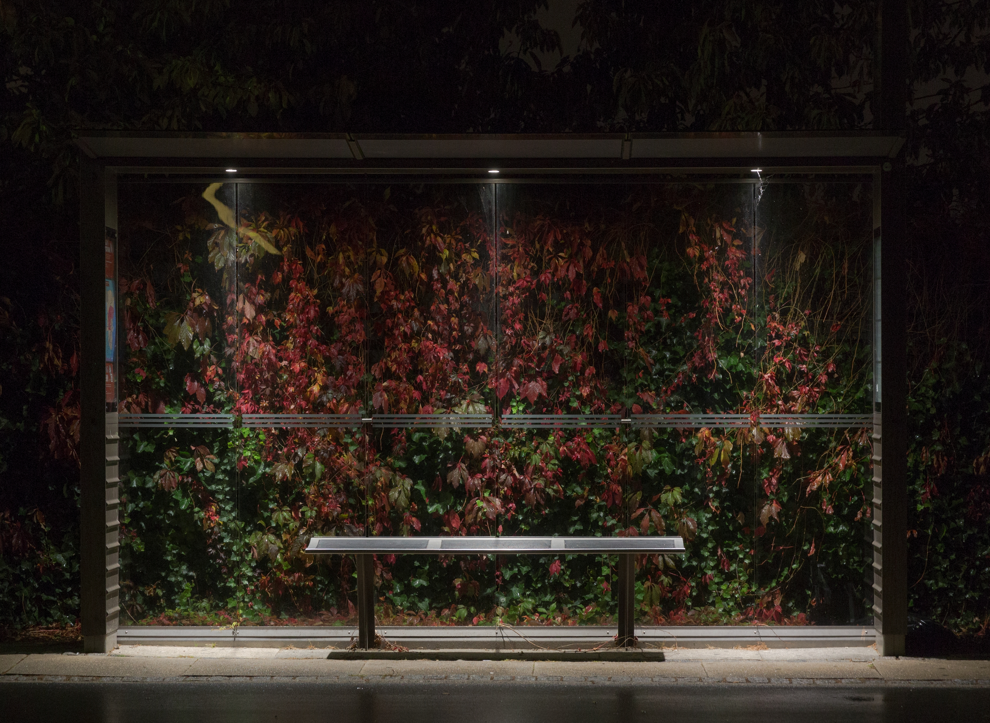 Night photo in rain of a bus shelter in Risskov, Aarhus, Denmark.